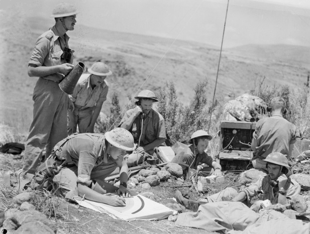 Near Khiam, Kyria. The command post of "D" troop of the 12th Battery of the 2/6th Field Regiment during action against the French in the Merdjayoun sector. Note the plotting board in use, the megaphone giving orders to the guns and the radio and field phones for receiving fire directions.